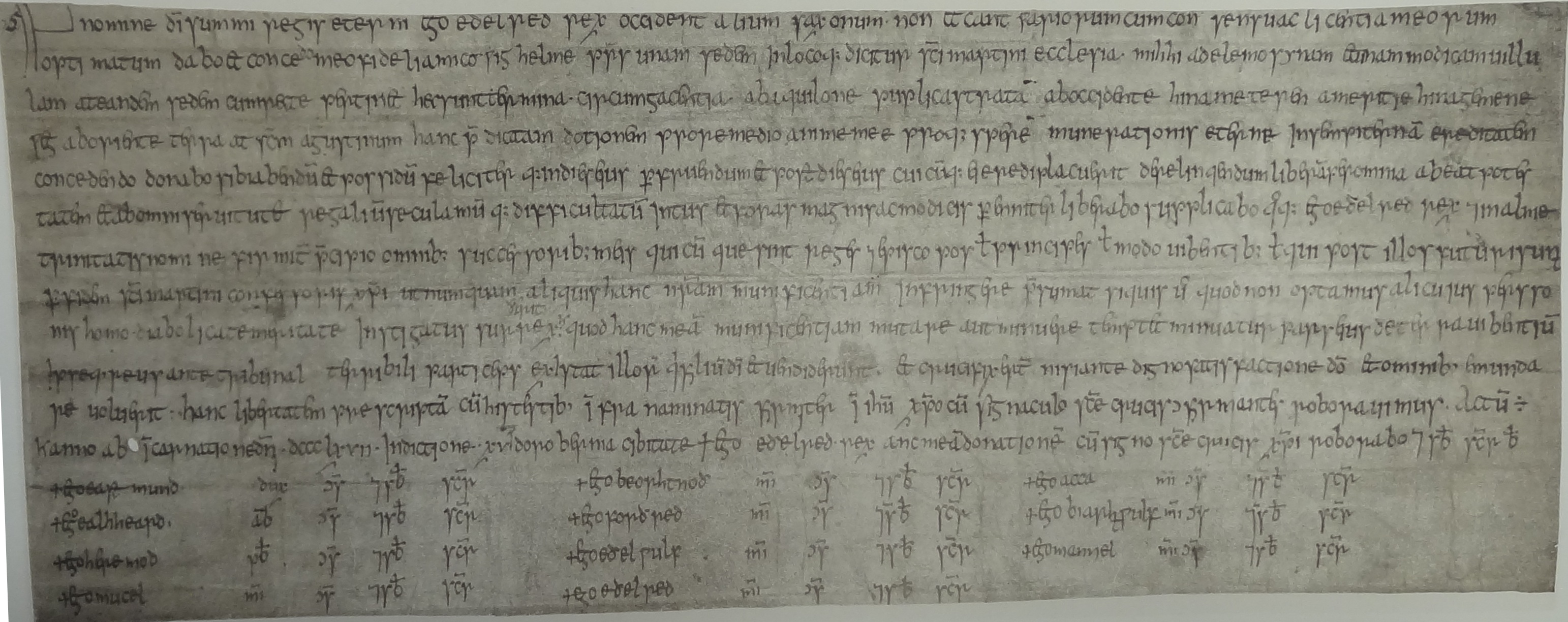 Charter S 338 dated 867 of King Æthelred I of Wessex